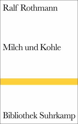 Book cover of Ralf Rothmann, "Milch und Kohle"" 2000.jpg